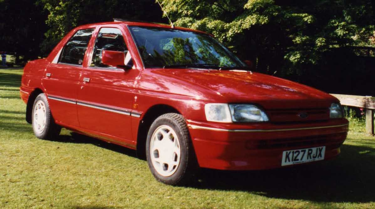 1992 Ford Orion 1.4 Ghia taken at Templenewsam, Leeds. Untaxed since 2007, so probably long gone now.